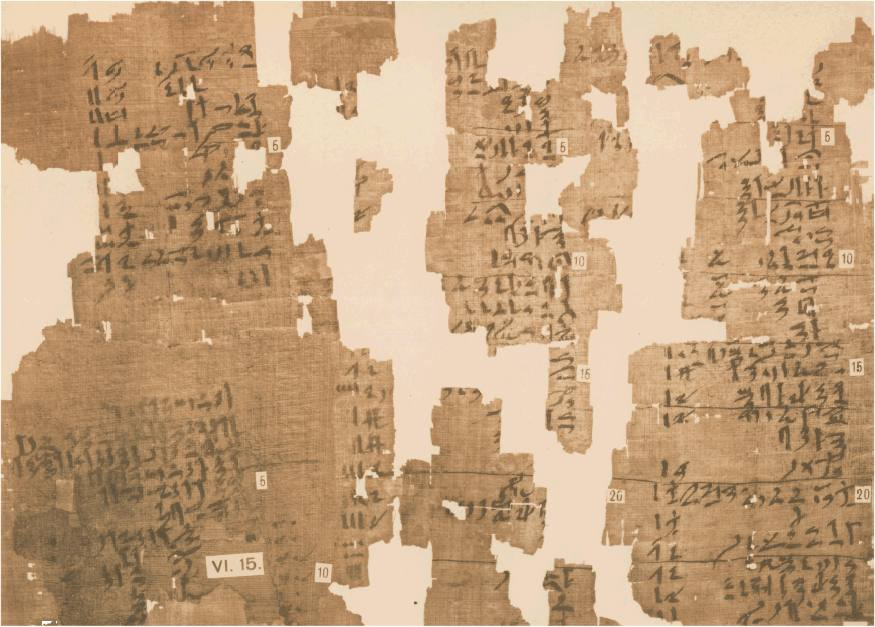 PKahun VI. 10 verso, List of Goods, Columns 4 to 6 (Plate XIX)